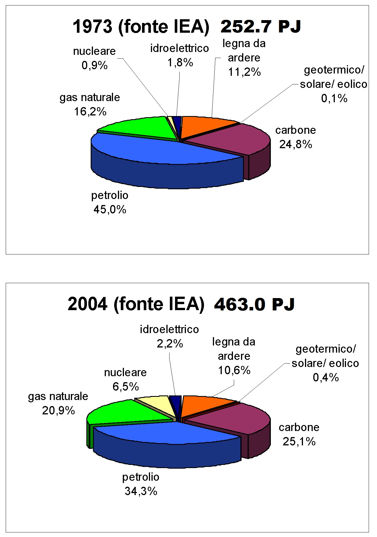 Graph of the total final energy consumption, by energy source, in year 2004 compared to 1973. Data available online at Data labels in Italian.